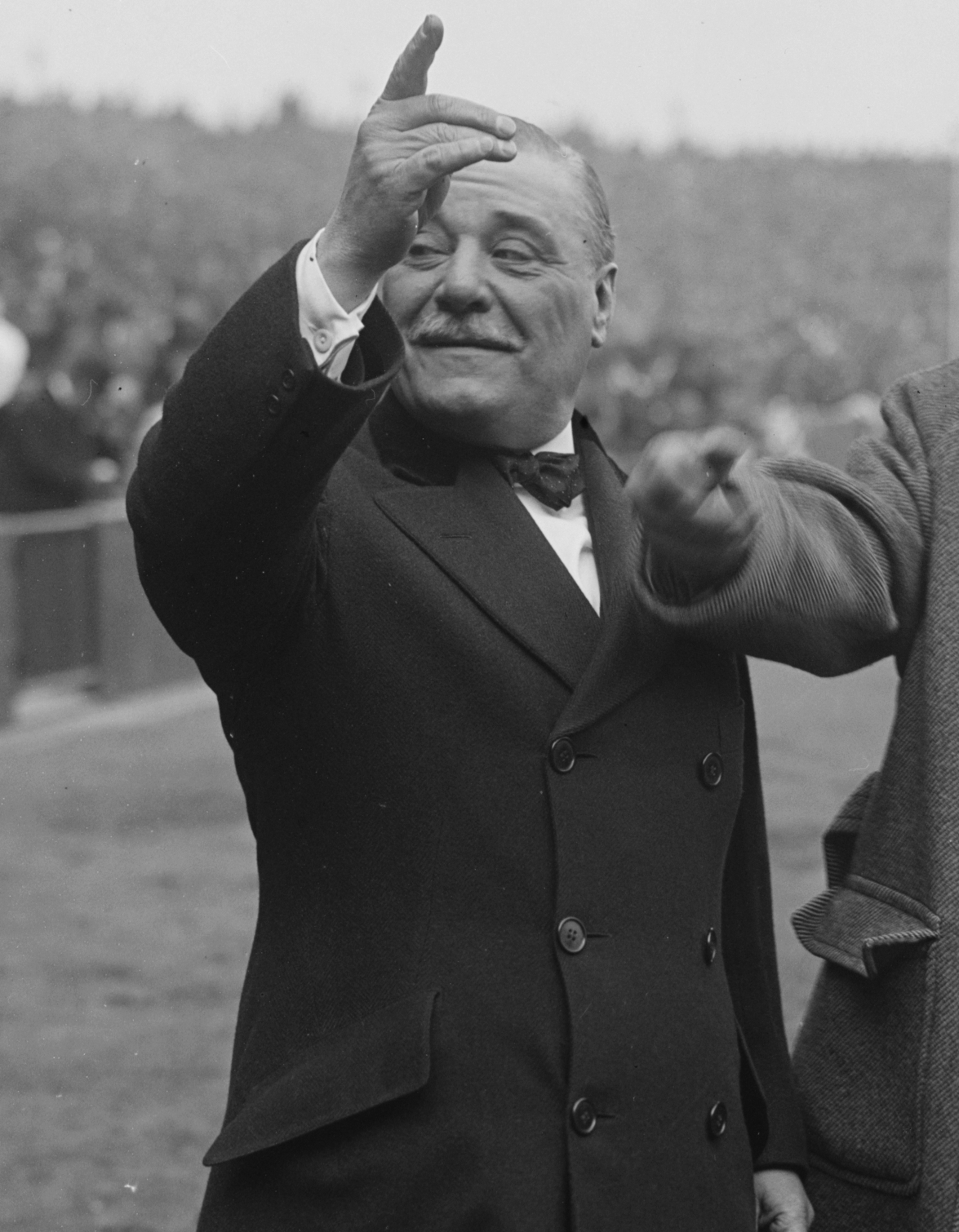 Jacob Ruppert at the first game at Yankee Stadium, 4/18/1923. →This file has been extracted from another file: Jacob Ruppert at Yankee Stadium.jpg.